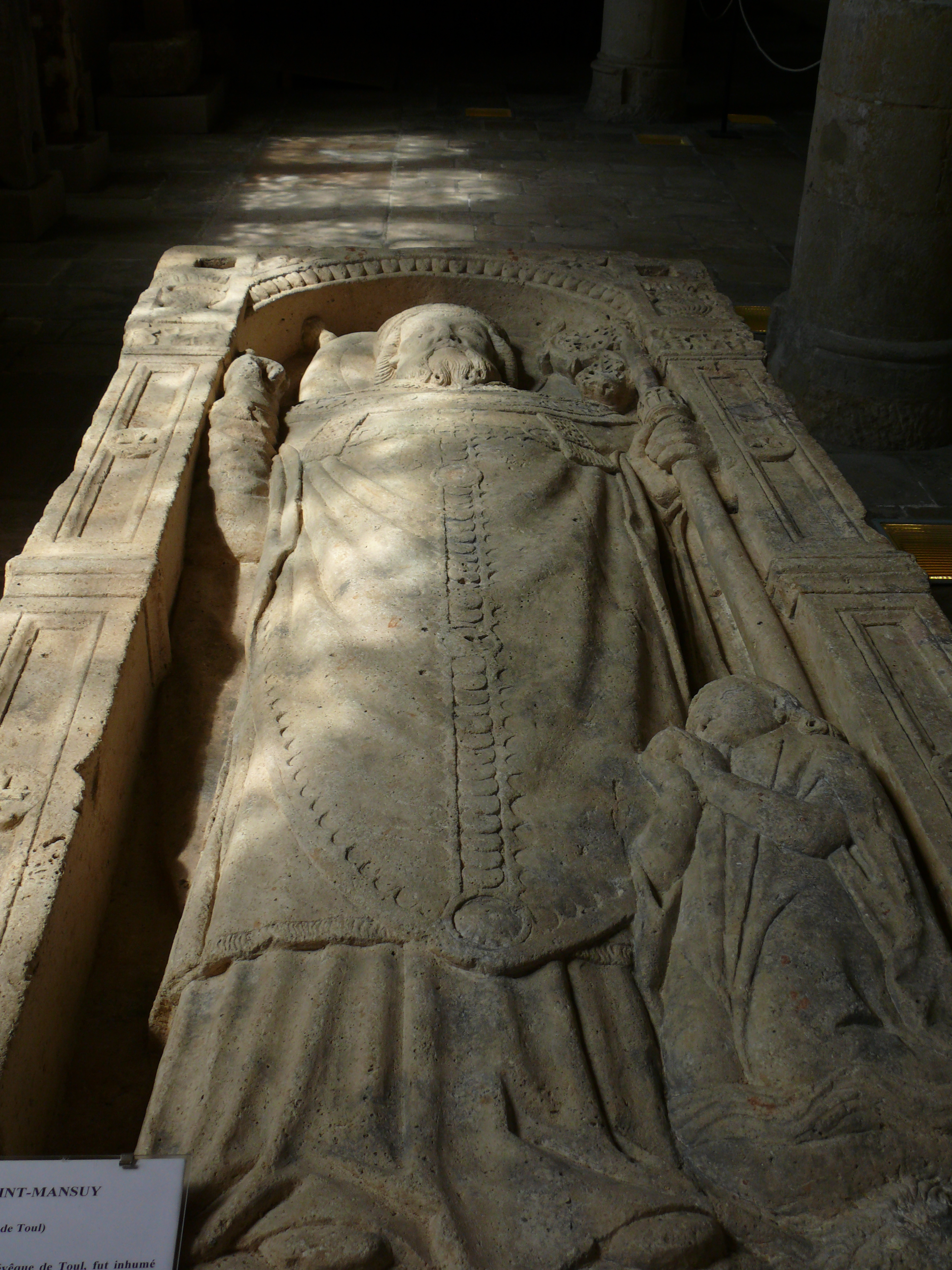 Funerary monument of Saint Mansuy (second half of 4th century), the first bishop of Toul in the Musée d'Art et d'Histoire de Toul. Saint Mansuy was interred in the necropolis bordering the ancient road to Metz, north of Toul. First an oratory, later a benedictine abbey was erected at this site. This limestone monument was carved at the beginning of the 16th century, it shows a lying prelate, dressed in the pontifical ornaments of the bishops of toul of the era. He wears a mitre and a cross and a ‘’surhuméral’’ (a small piece of clothing typical for the Toul diocese). His feet rest on a lion, symbol of vigilance. The little kneeling figure at his feet, holding a round object, reminds one of the miracle of the drowned child.